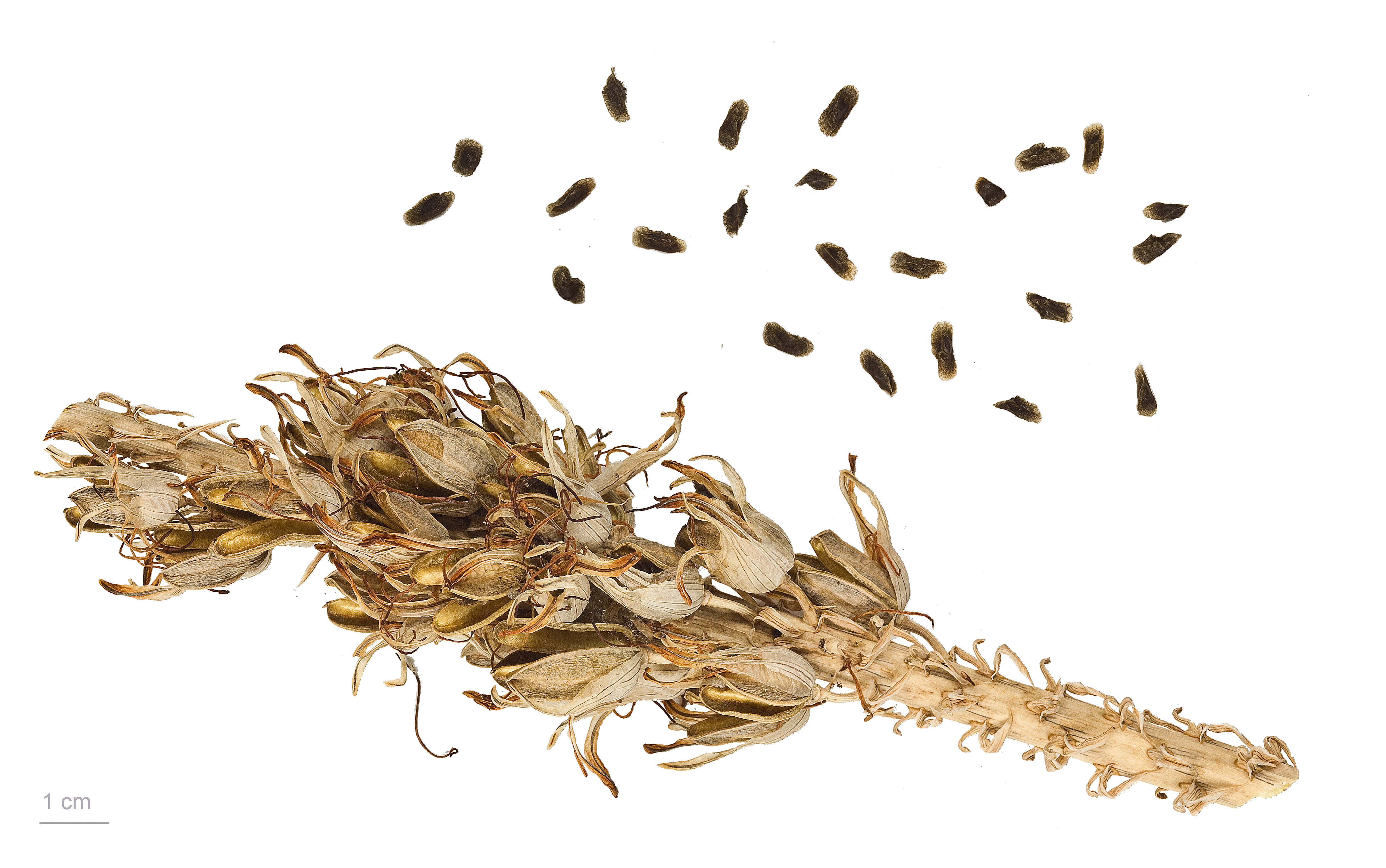 Aloe vera , fruits and seeds